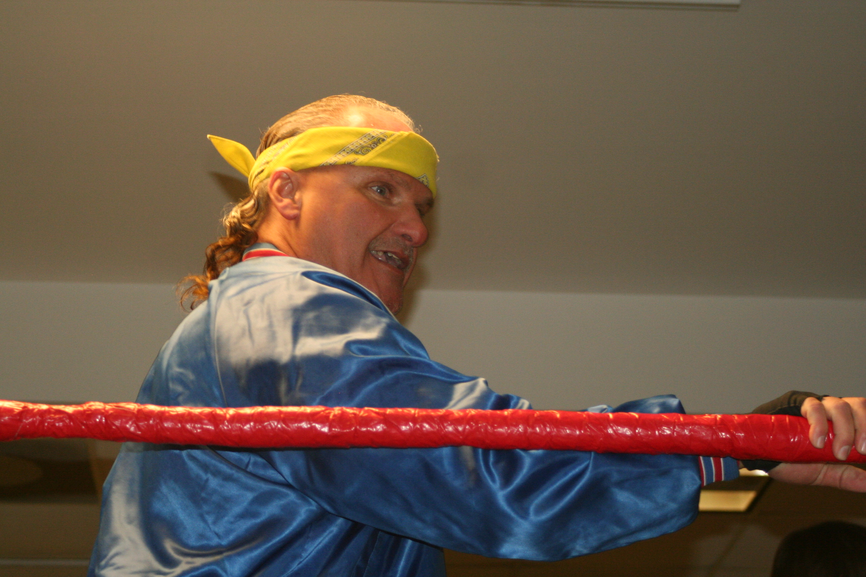 George South at an AIWF Eden show in North Carolina on January 28, 2011.